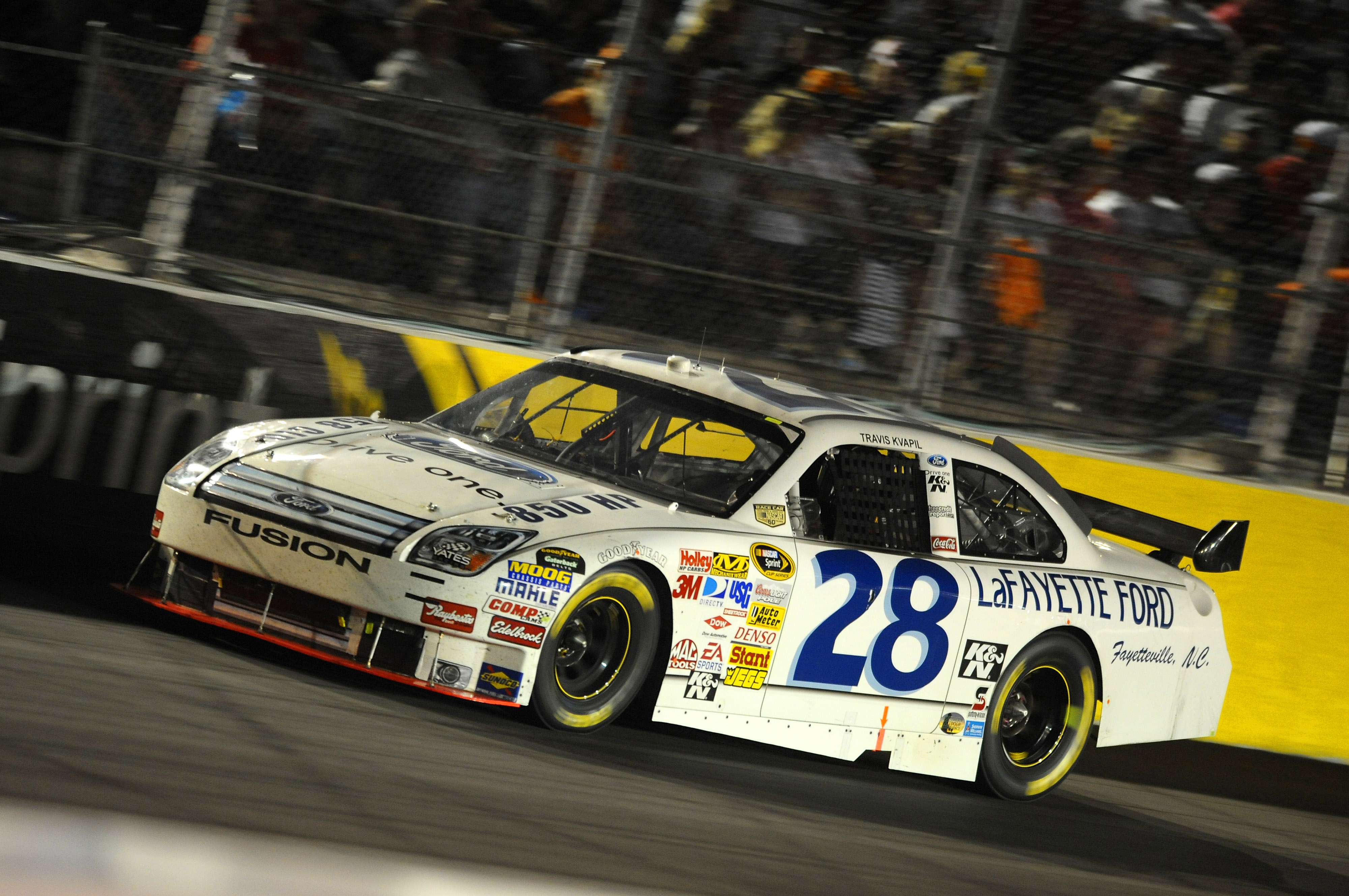 05/08/08 Darlington, South Carolina USA. Travis Kvapil finished 8th. Credit: Autostock